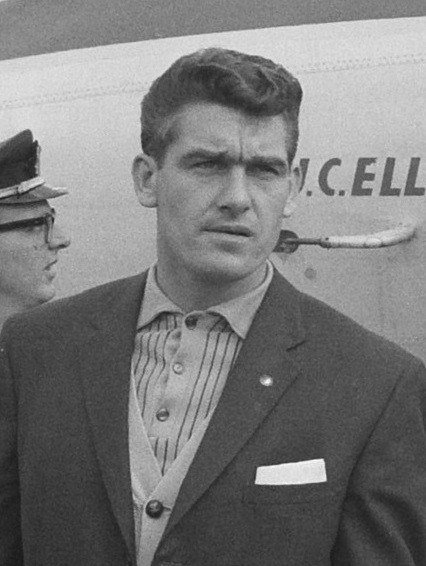 Ron Henry in 1961.